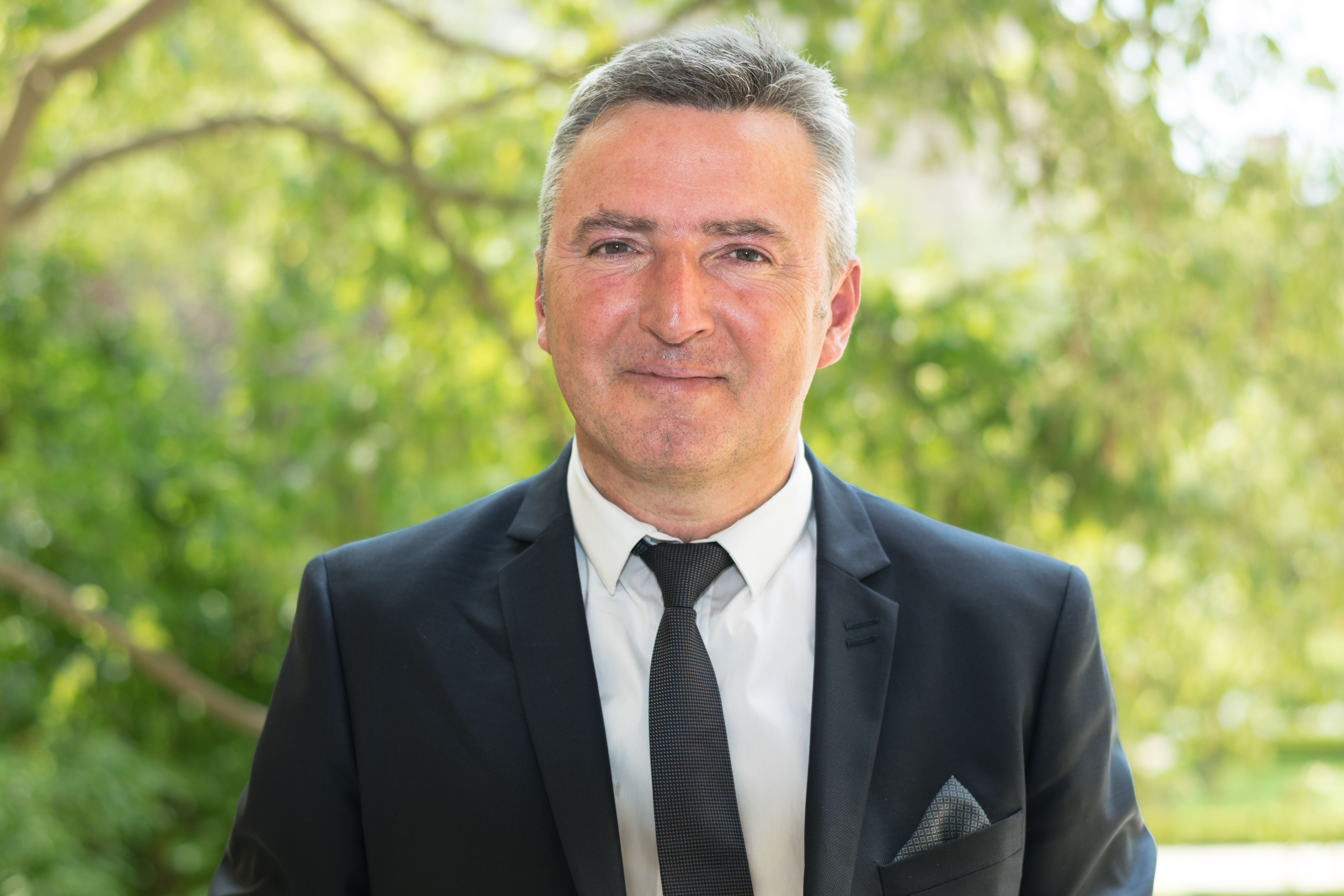 Didier Le Gac in the garden of the Quatres Colonnes in the Palais Bourbon (Paris, France).